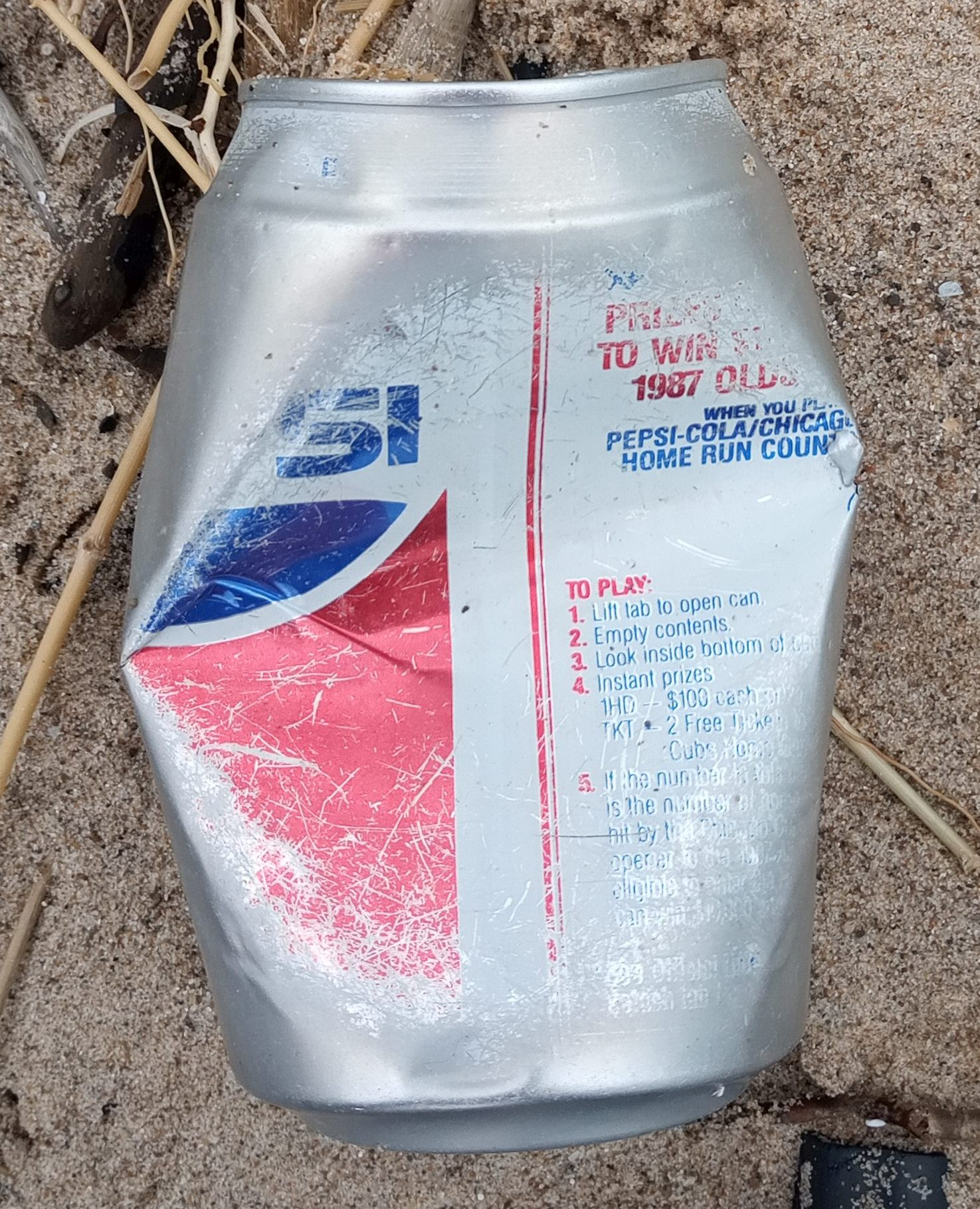 A weather aluminum can bearing the Pepsi Cola logo and advertising a sweepstakes for a 1987 Oldsmobile Cutlass, observed on the strandline at Lake Street Beach on Lake Michigan in Gary, Indiana in February 2020. Possibly preserved in the sand of a nearby foredune and freed by recent erosion.